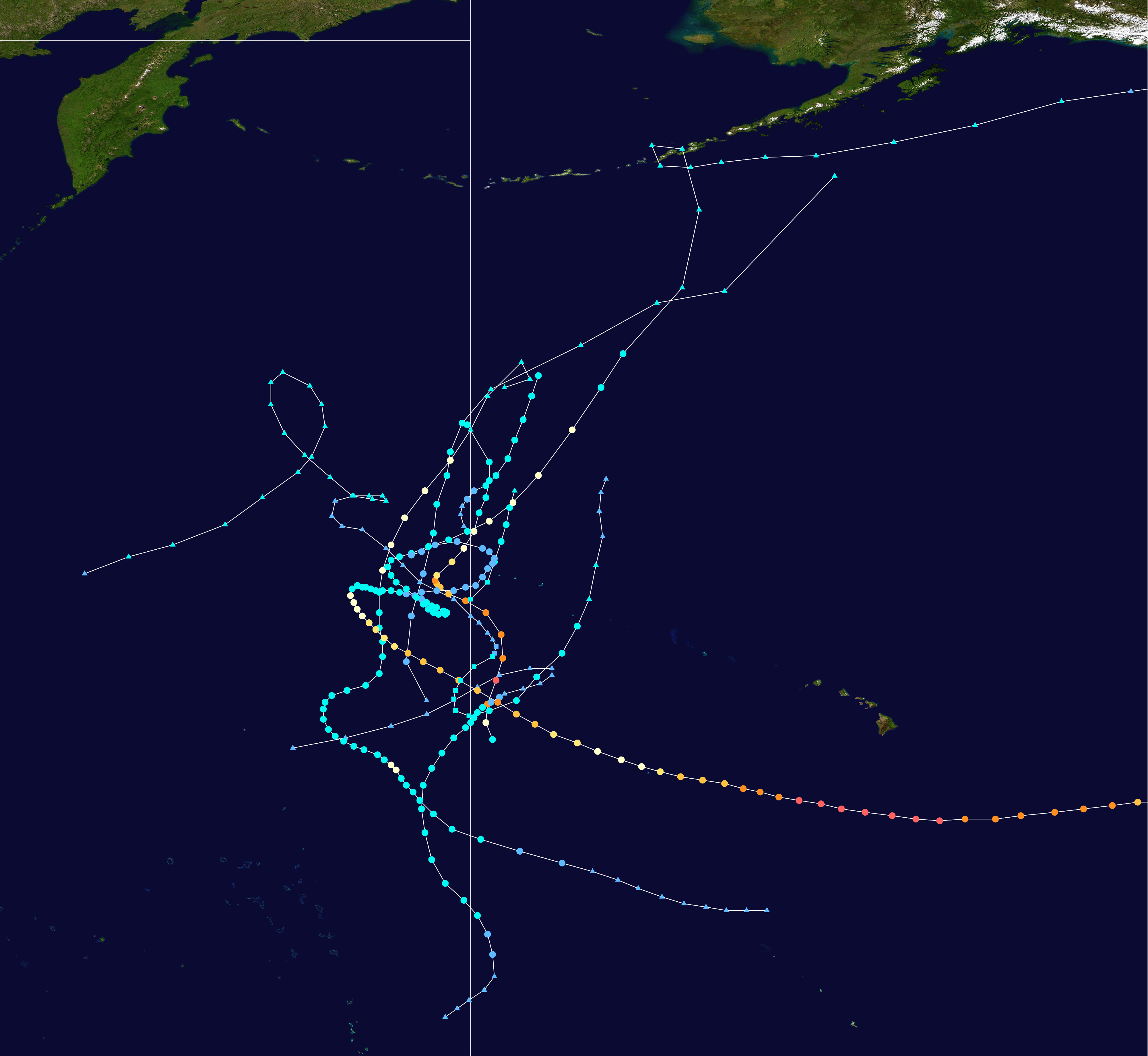 Track map of all hurricanes that crossed from the Western Pacific to the Central Pacific. The points show the location of the storm at 6-hour intervals. The colour represents the storm's maximum sustained wind speeds as classified in the Saffir-Simpson Hurricane Scale (see below), and the shape of the data points represent the nature of the storm, according to the legend below. Saffir–Simpson scale Tropical depression≤38 mph≤62 km/h Category 3111–129 mph178–208 km/h Tropical storm39–73 mph63–118 km/h Category 4130–156 mph209–251 km/h Category 174–95 mph119–153 km/h Category 5≥157 mph≥252 km/h Category 296–110 mph154–177 km/h Unknown Storm type Tropical cyclone Subtropical cyclone Extratropical cyclone / Remnant low / Tropical disturbance